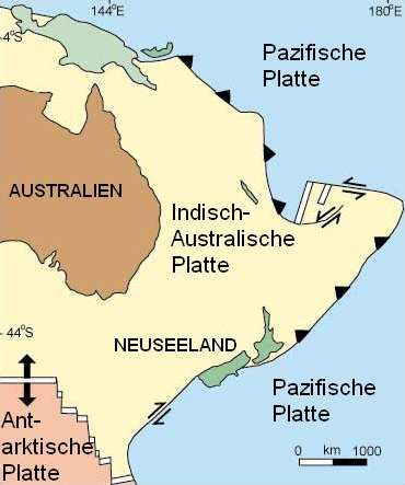 New Zealand tectonics map in German based on Image:NZ transform.jpg